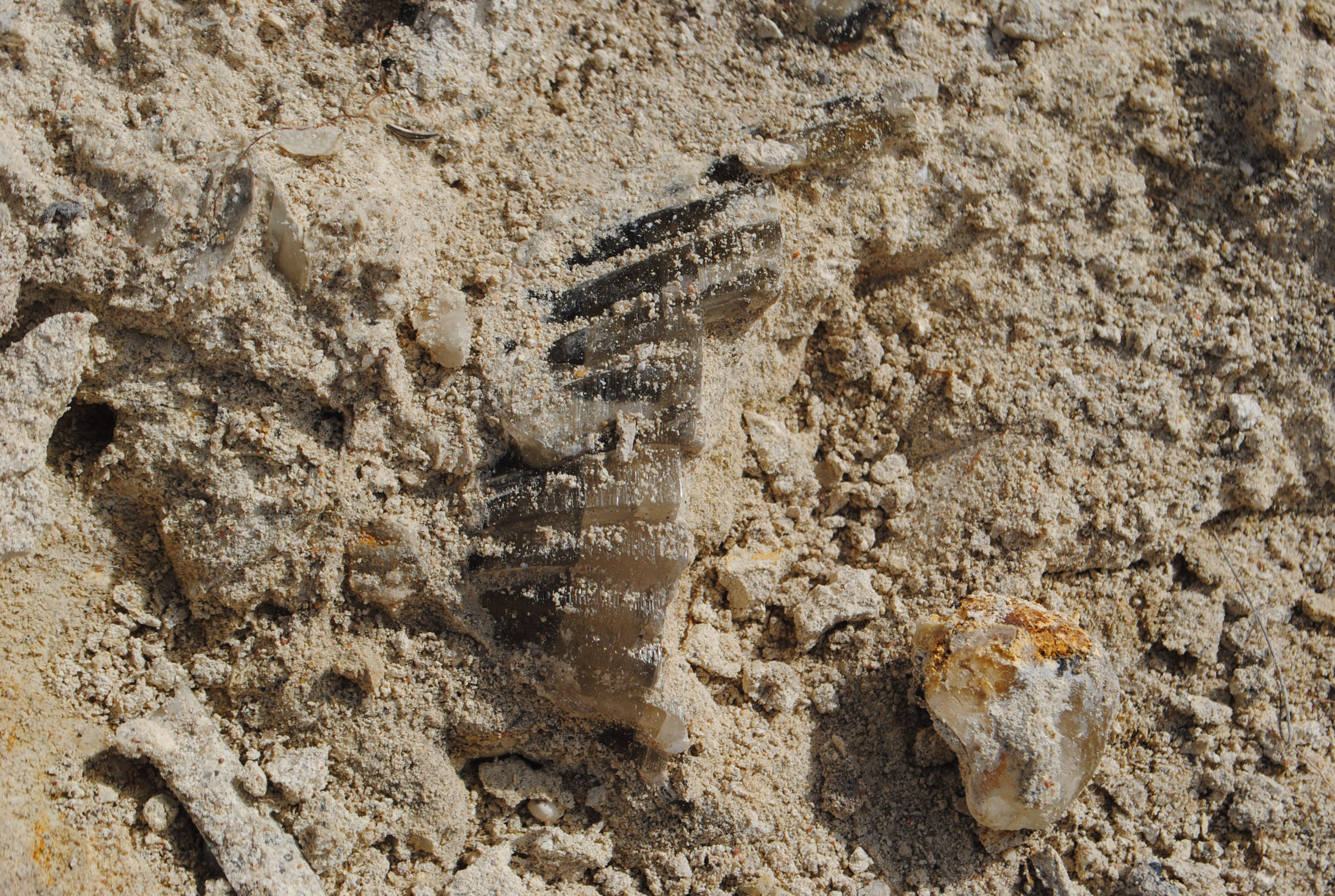 Fossil oyster; picture taken at Cañadón de Las Ostra, Las Grutas, Rio Negro province, Patagonia, Agentina